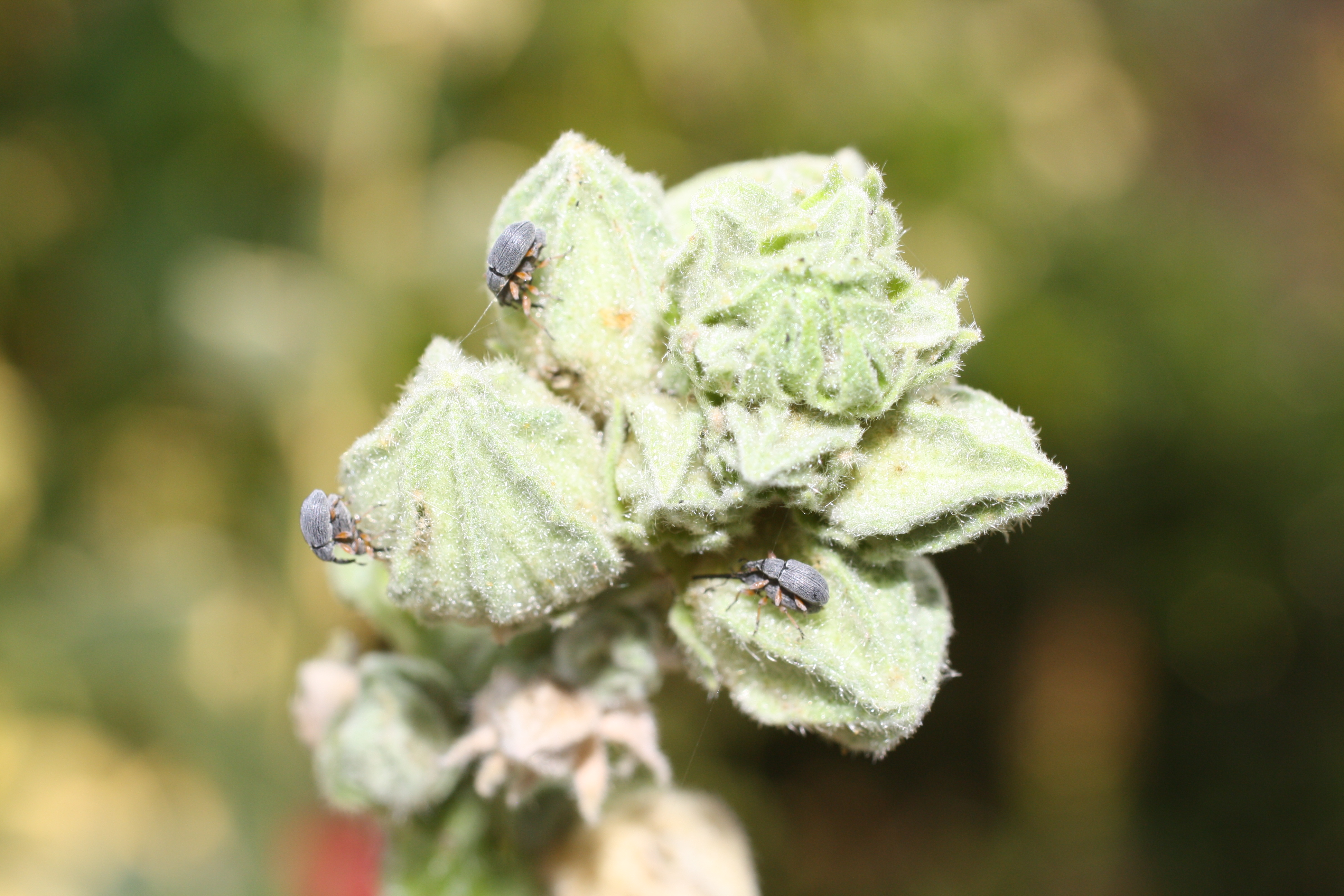 Affection of hollyhock by Rhopalapion longirostre